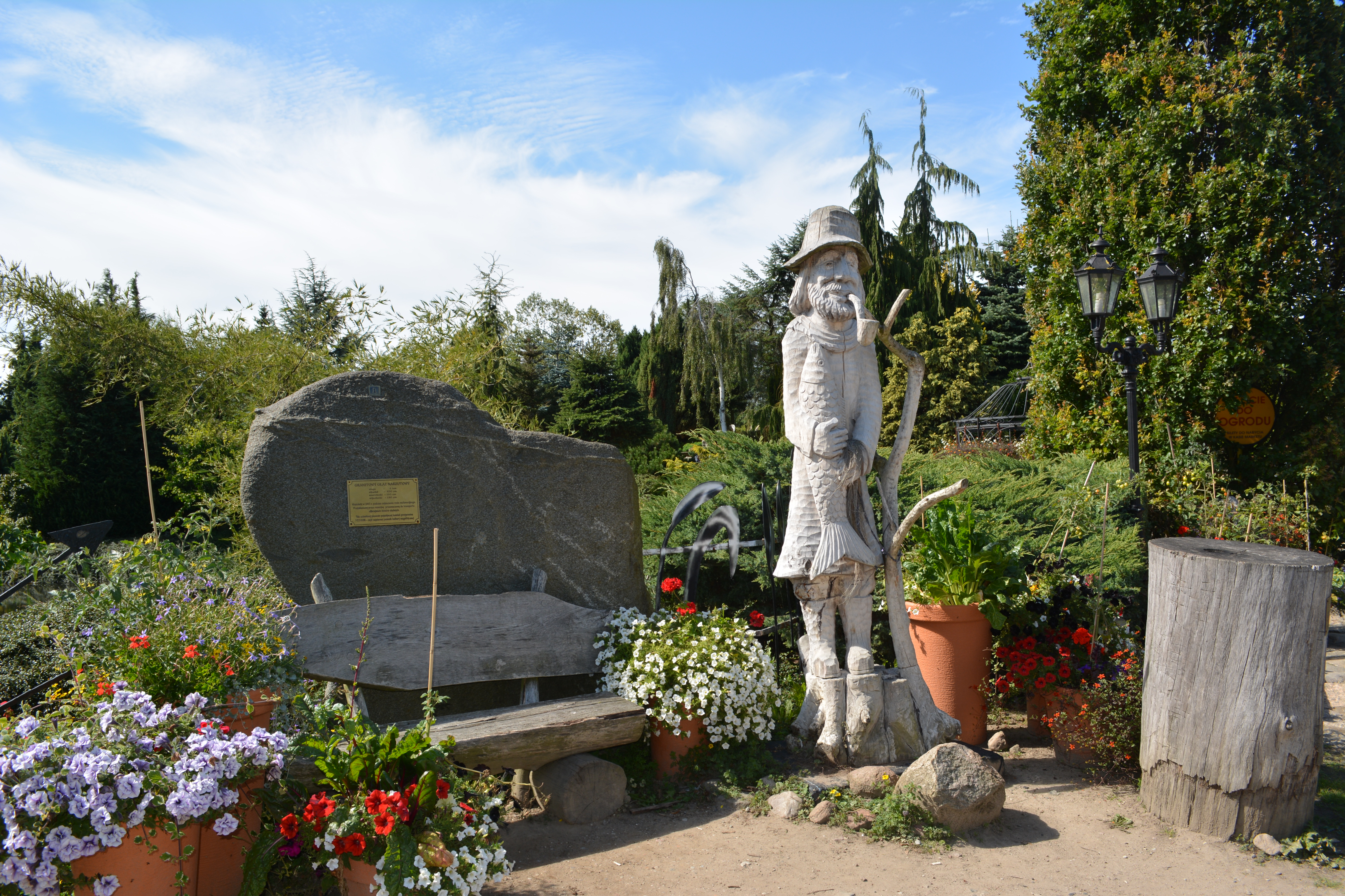 Dobrzyca- Eingangsbereich zu den Thematischen Gärten